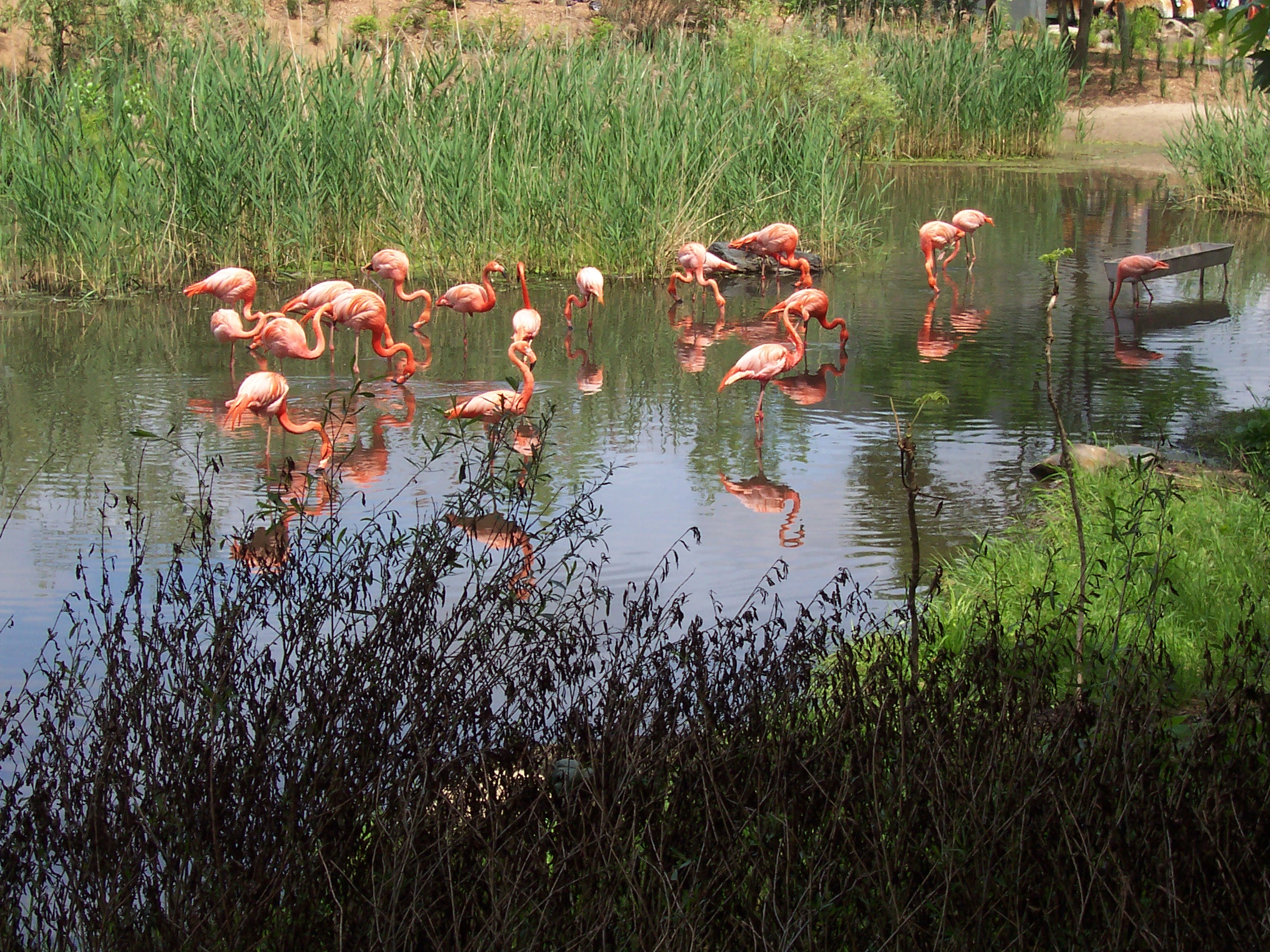 Zoo de Granby (Québec, Canada): Flamants roses dans la section "Afrika"; Granby Zoo (Quebec, Canada): American Flamingoes in the "Afrika" (!) zone